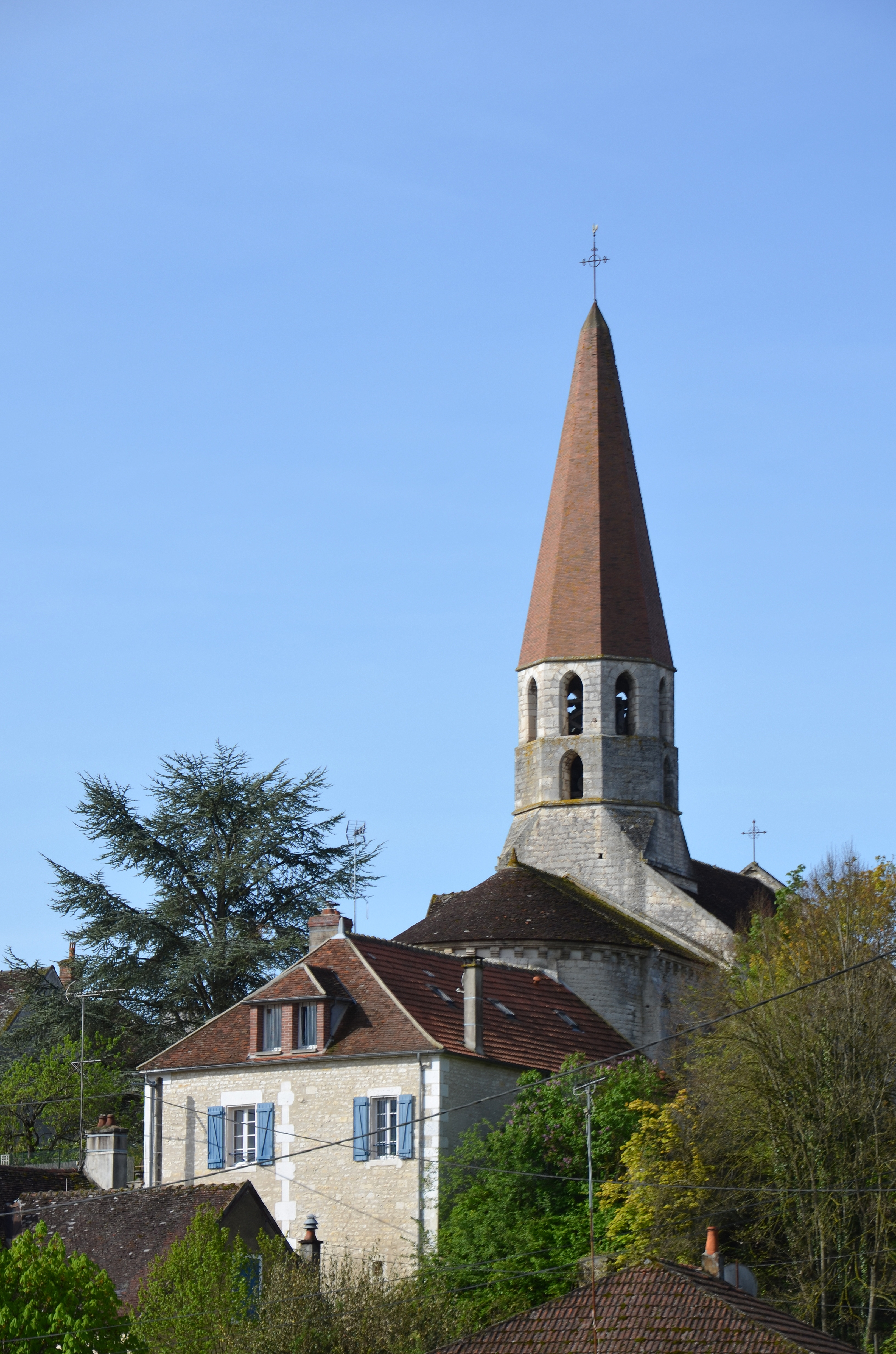 Church of Escolives Ste Camille, Yonne, France